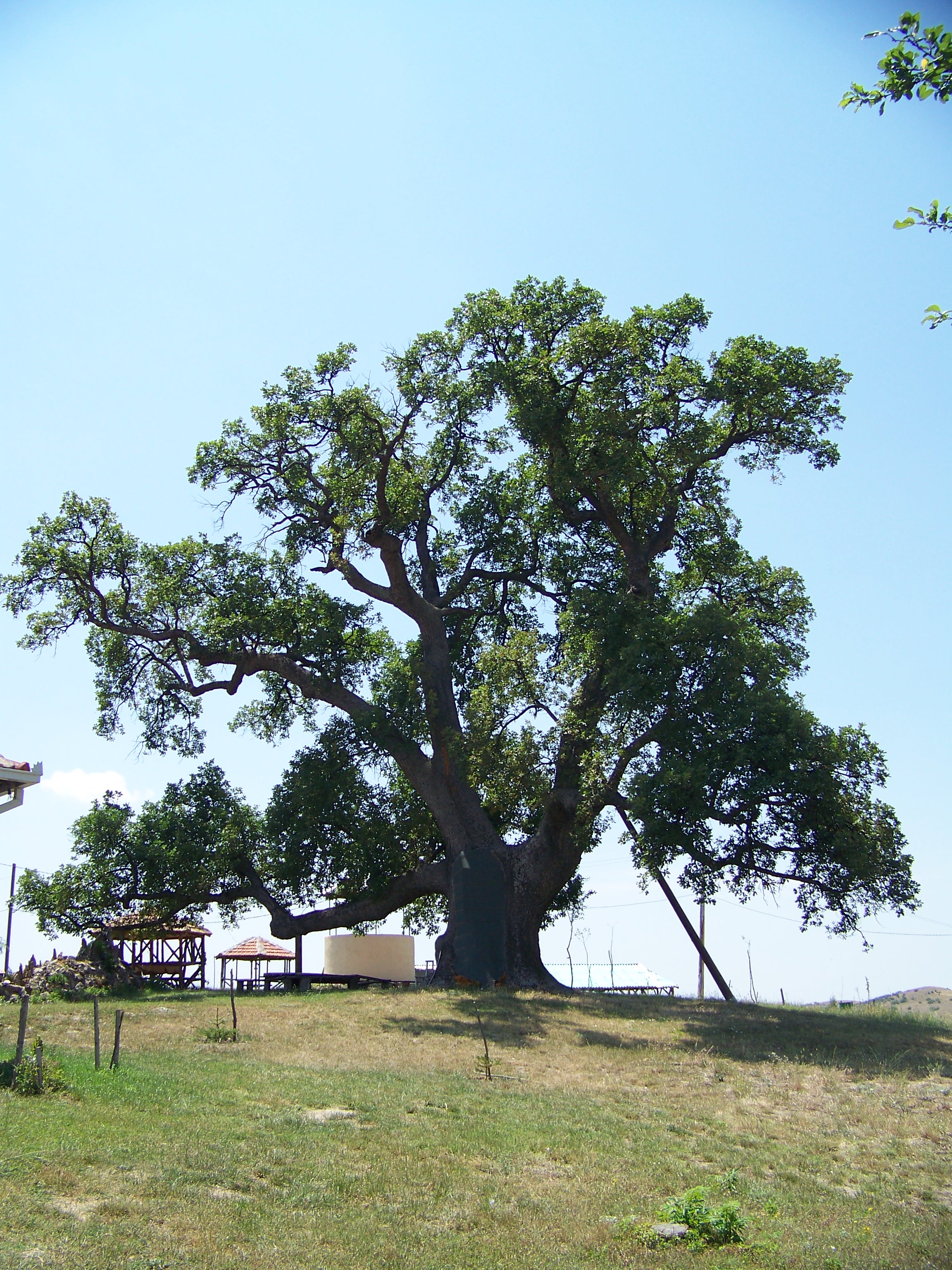 An old oak at village of Beli, Kočani, Republic of Macedonia